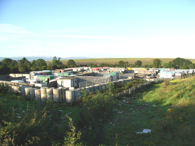 Halting Site on Cappagh Road, near Finglas village. Just south of the Cappagh Road bridge over the M50. In the townland of Cappoge, in the civil parish of Castleknock, in the barony of Castleknock.